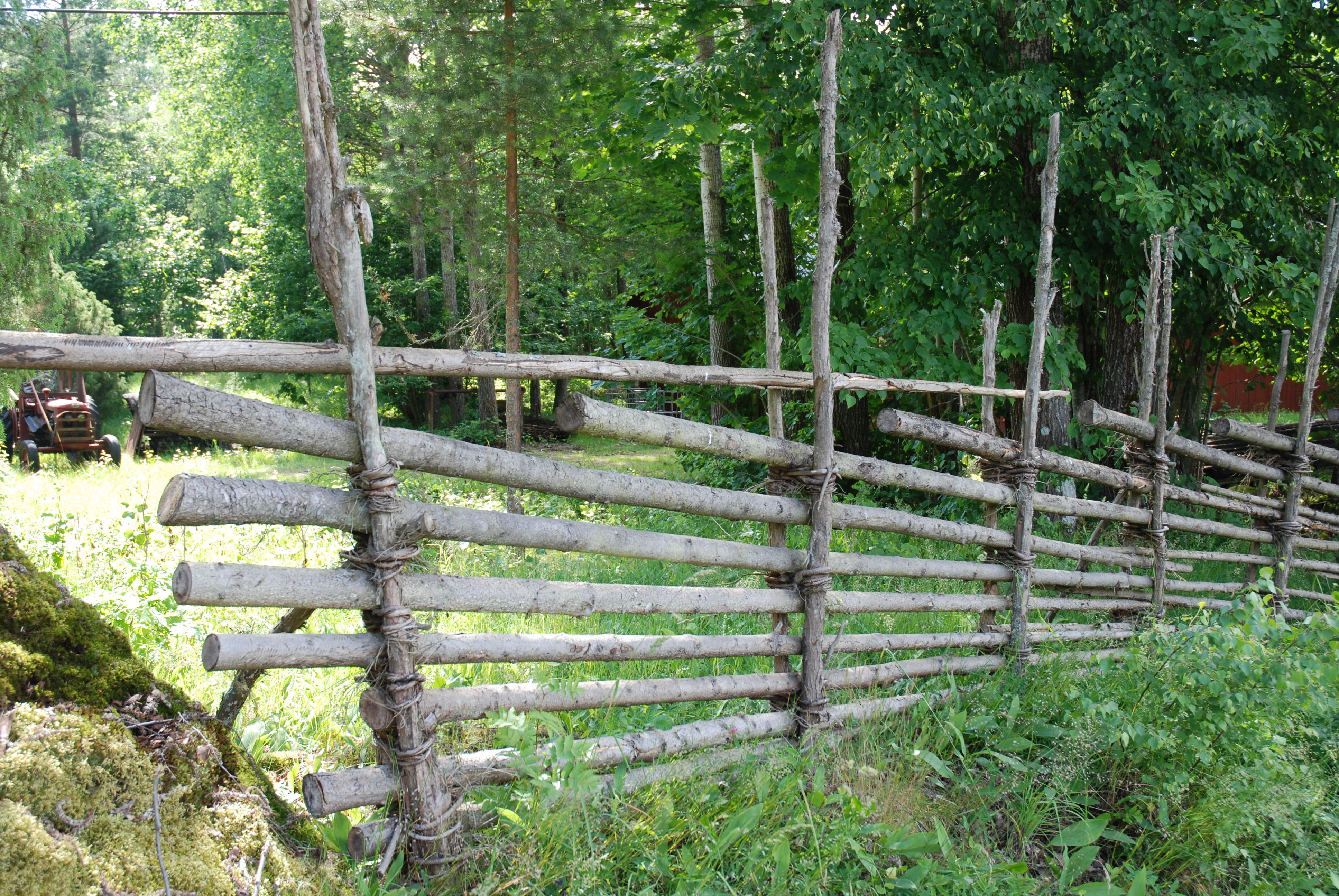 A Wooden pole fence from Småland, Sweden. Photo: Bengt Oberger.